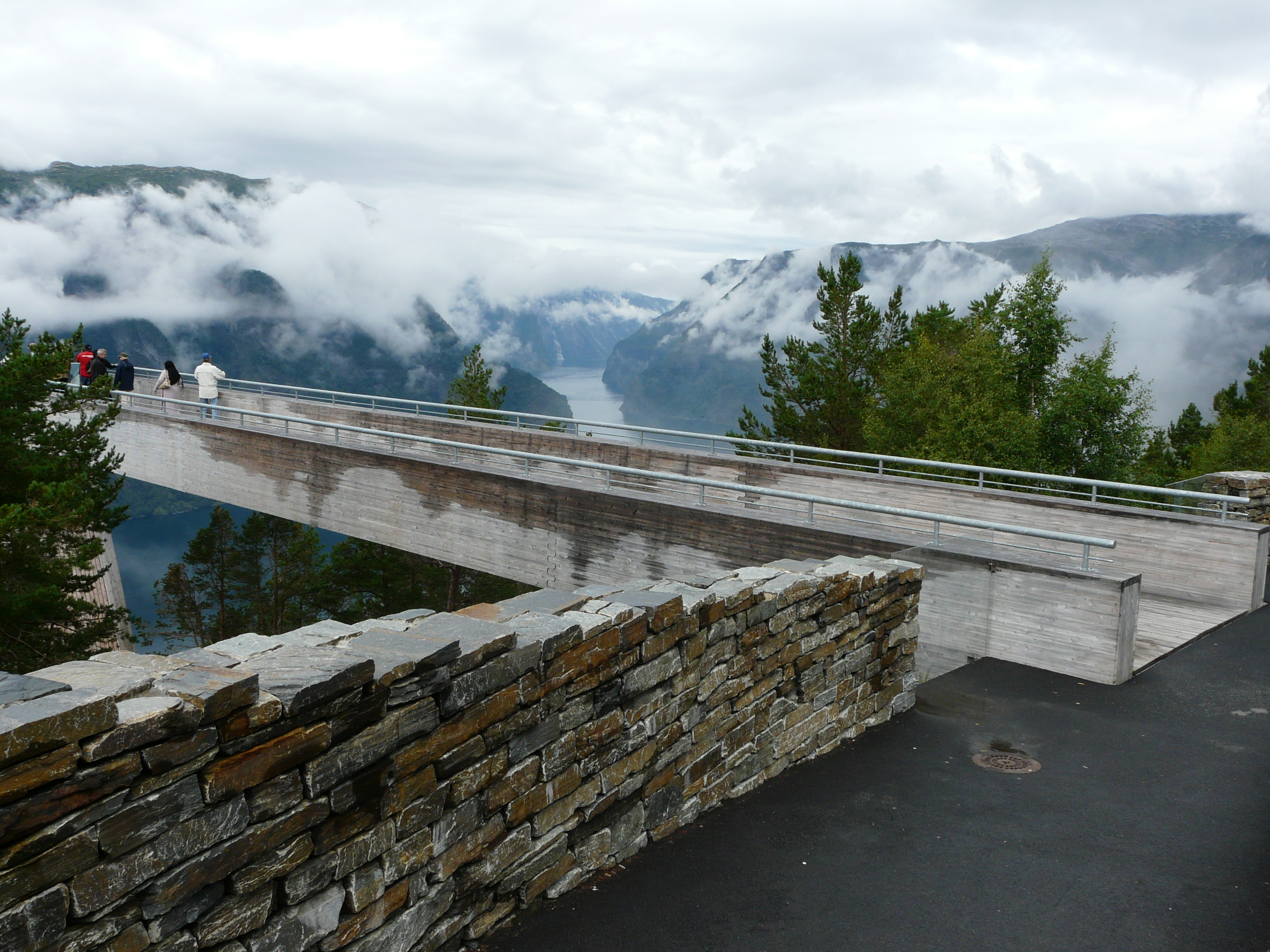 Stegastein